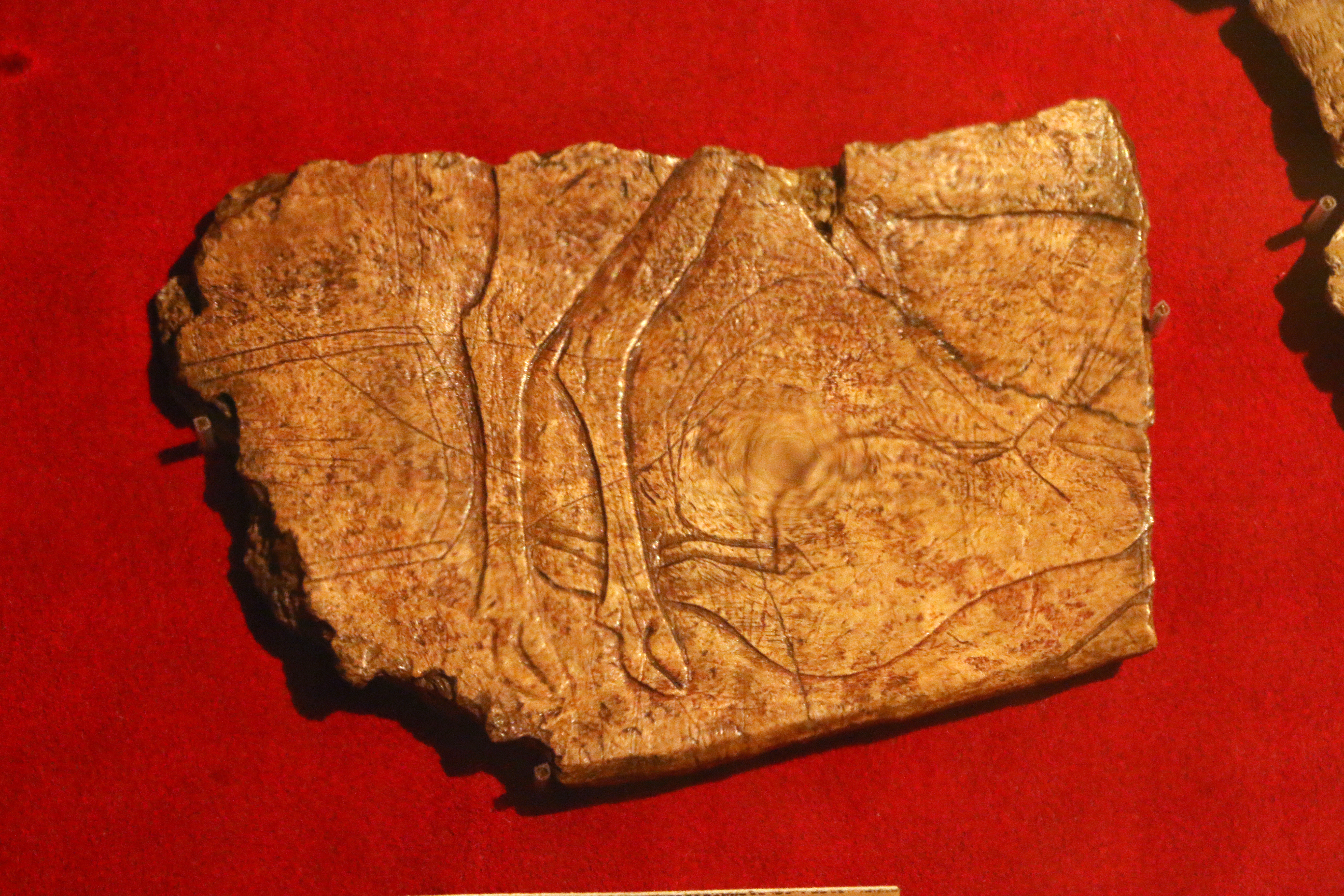 From the National Archaeological Museum of Saint-Germain-en-Laye near Paris France - Pad with wowan and reindeer - Reinder antler from middle magdalenian period.